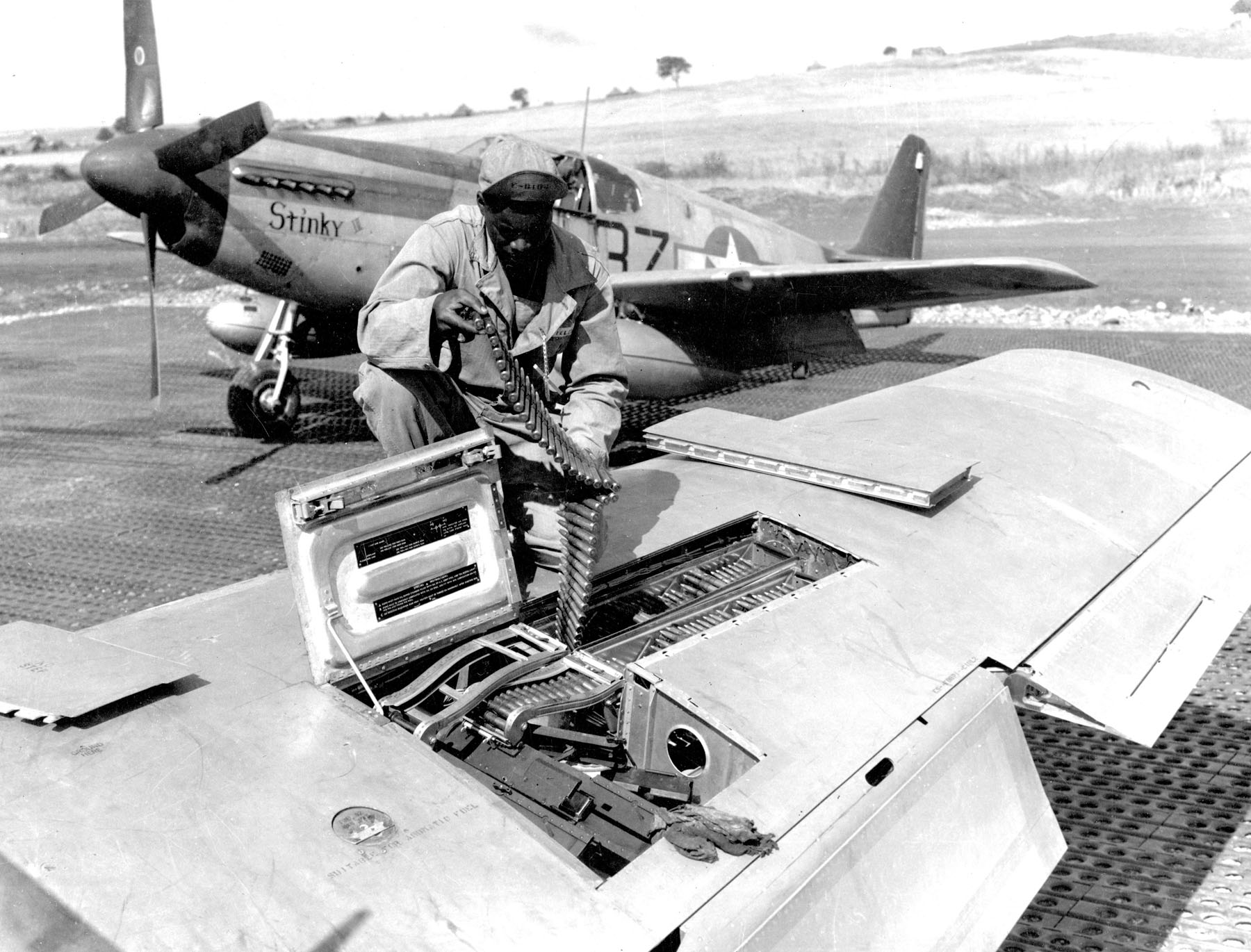 A USAAF armourer of the 100th Fighter Squadron, 332nd Fighter Group, 15th U.S. Air Force checks ammunition belts of the 12.7 mm machine guns in the wings of a North American P-51B Mustang in Italy, ca. September 1944. The 332nd Fighter Group was composed of Afro-American pilots and ground support personnel trained at Tuskegee, Alabama (USA), and the members of the group became collectively known as the "Tuskegee Airmen". Original caption: "An armorer of the 15th U.S. Air Force checks ammunition belts of the .50 caliber machine guns in the wings of a P-51 Mustang fighter plane before it leaves an Italian base for a mission against German military targets. The 15th Air Force was organized for long range assault missions and its fighters and bombers range over enemy targets in occupied and satellite nations, as well as Germany itself.", ca. 09/1944."